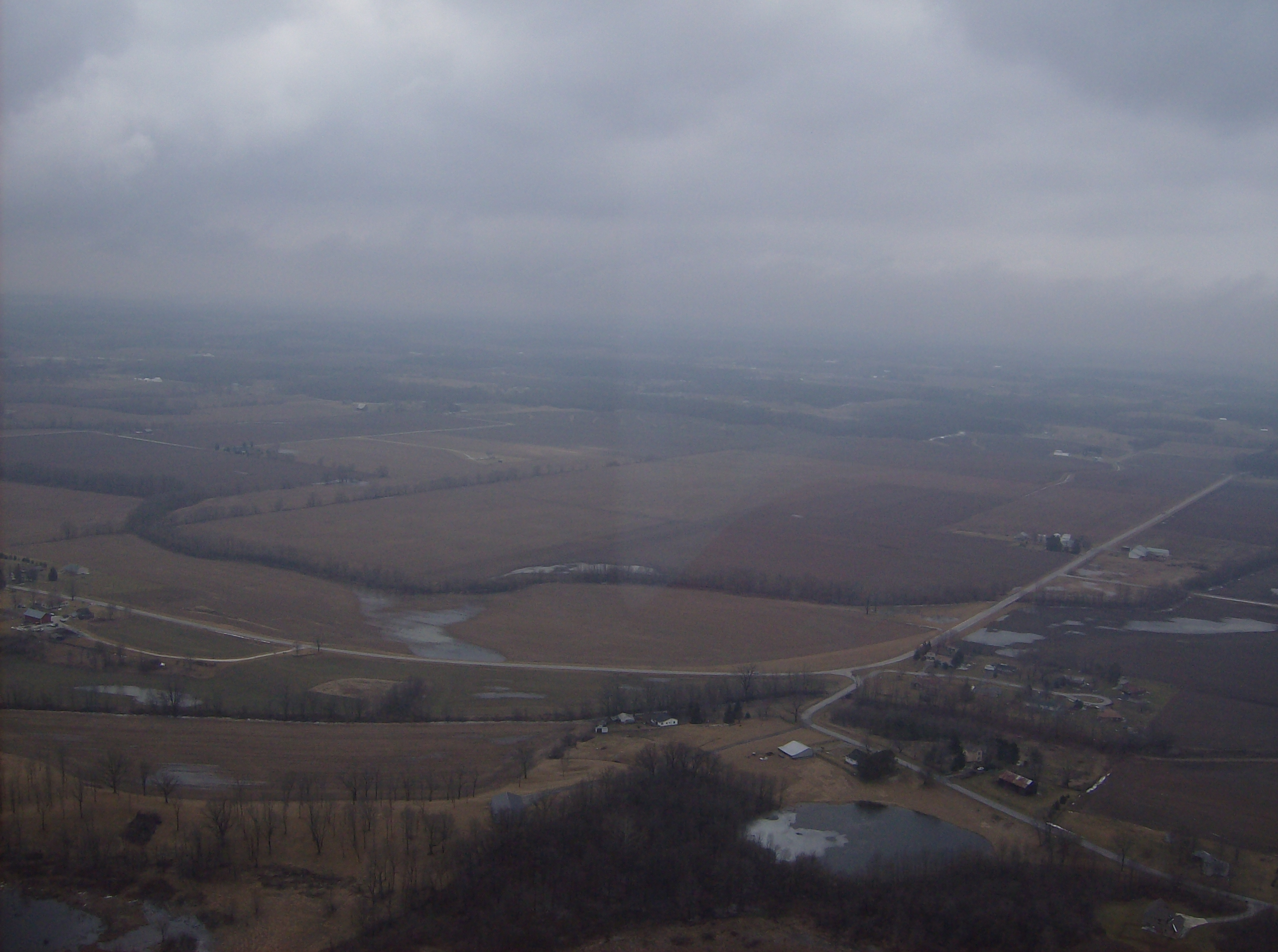 Fields in northeastern Concord Township, Champaign County, Ohio, United States. Picture taken from a Diamond Eclipse light airplane at an altitude of 2,000 feet MSL and a bearing of approximately 214º.